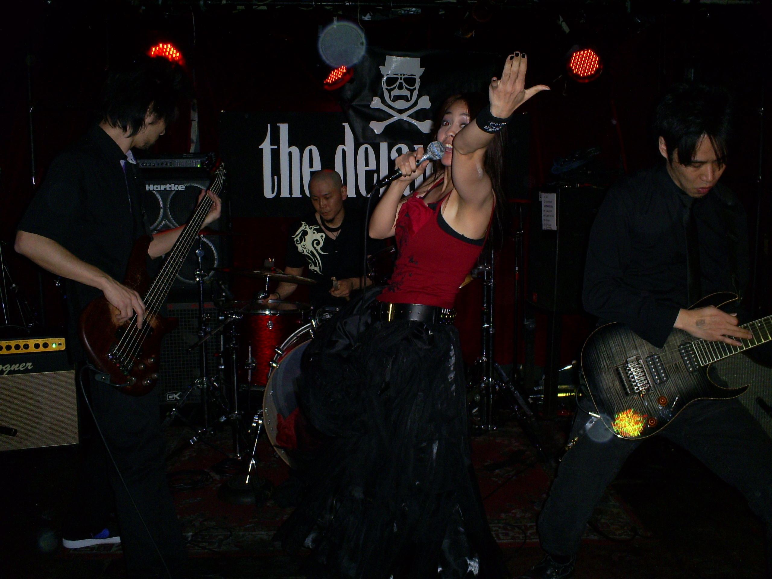 Head Phones President playing at The Delancey in New York, NY.